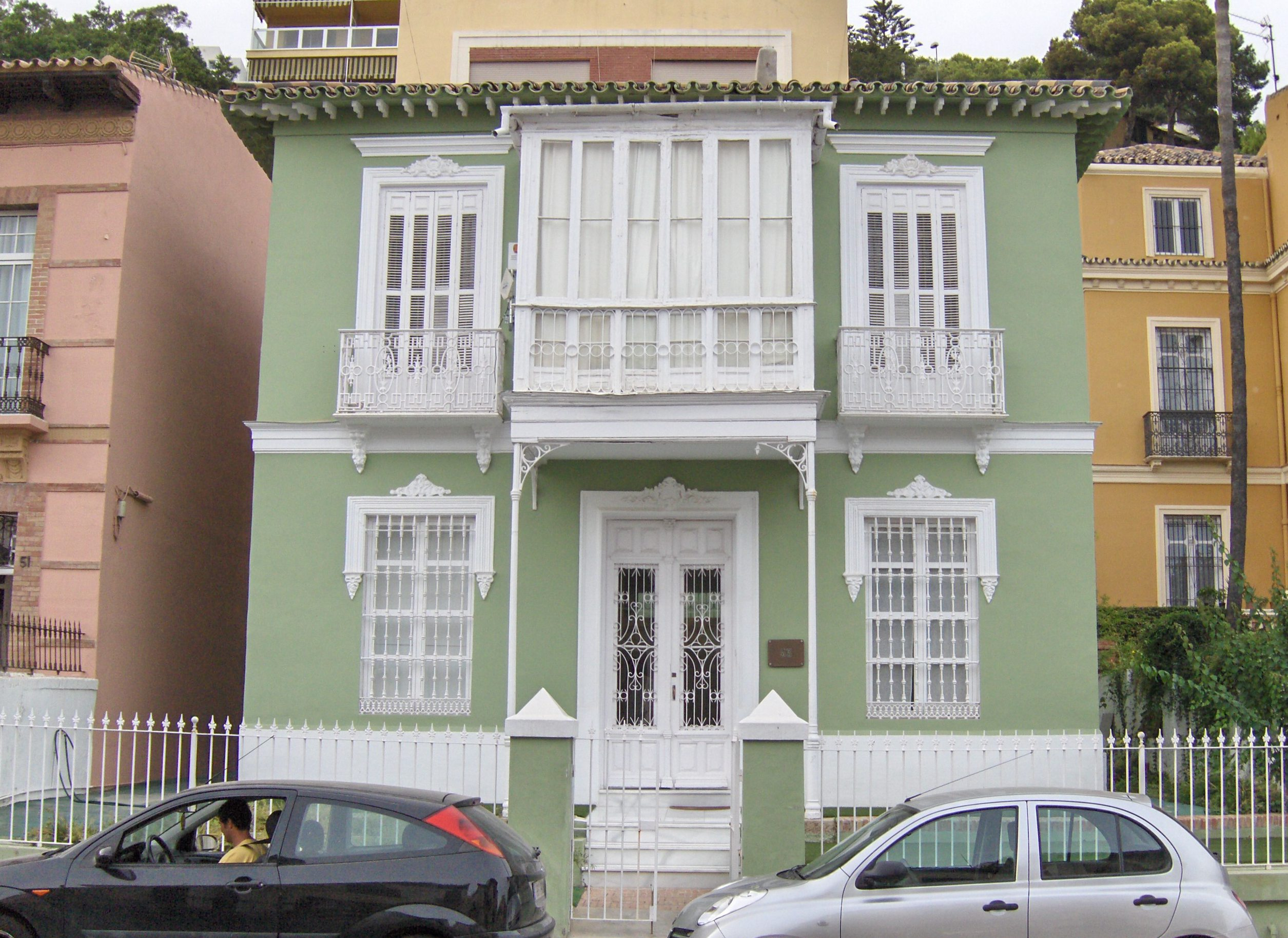 House in Paseo de Sancha, Málaga.